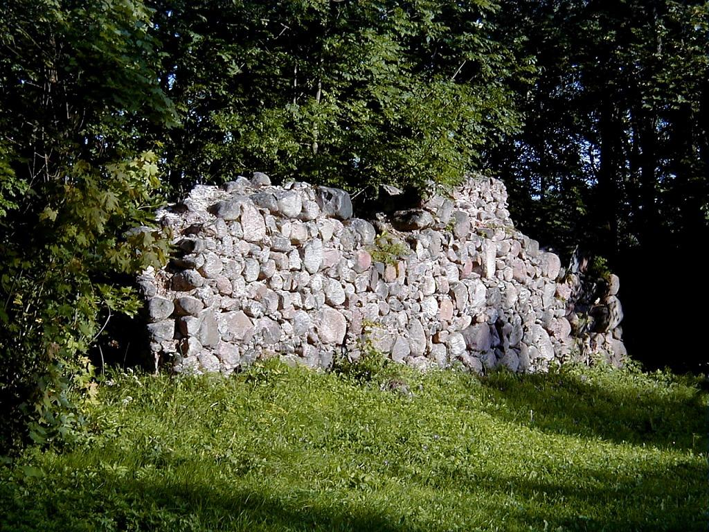 Trikāta Castle ruins